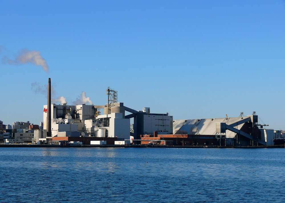 Redpath Sugar Refinery, as seen from the Ongiara Ferry from Ward's Island to the Toronto Ferry Docks....